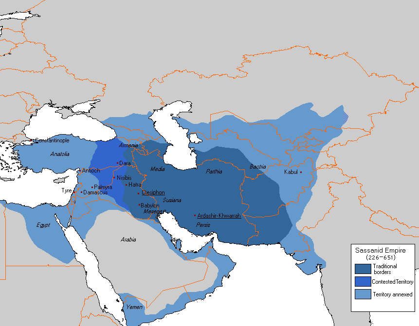 Sassanid Map